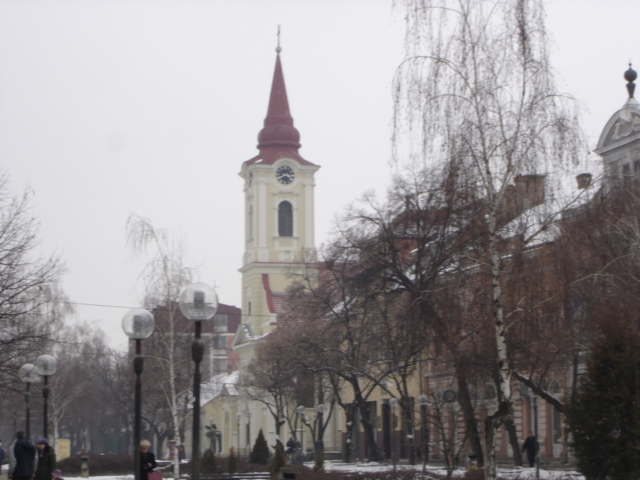 Main Street and Catholic church in Kikinda /Vojvodina /Serbia.